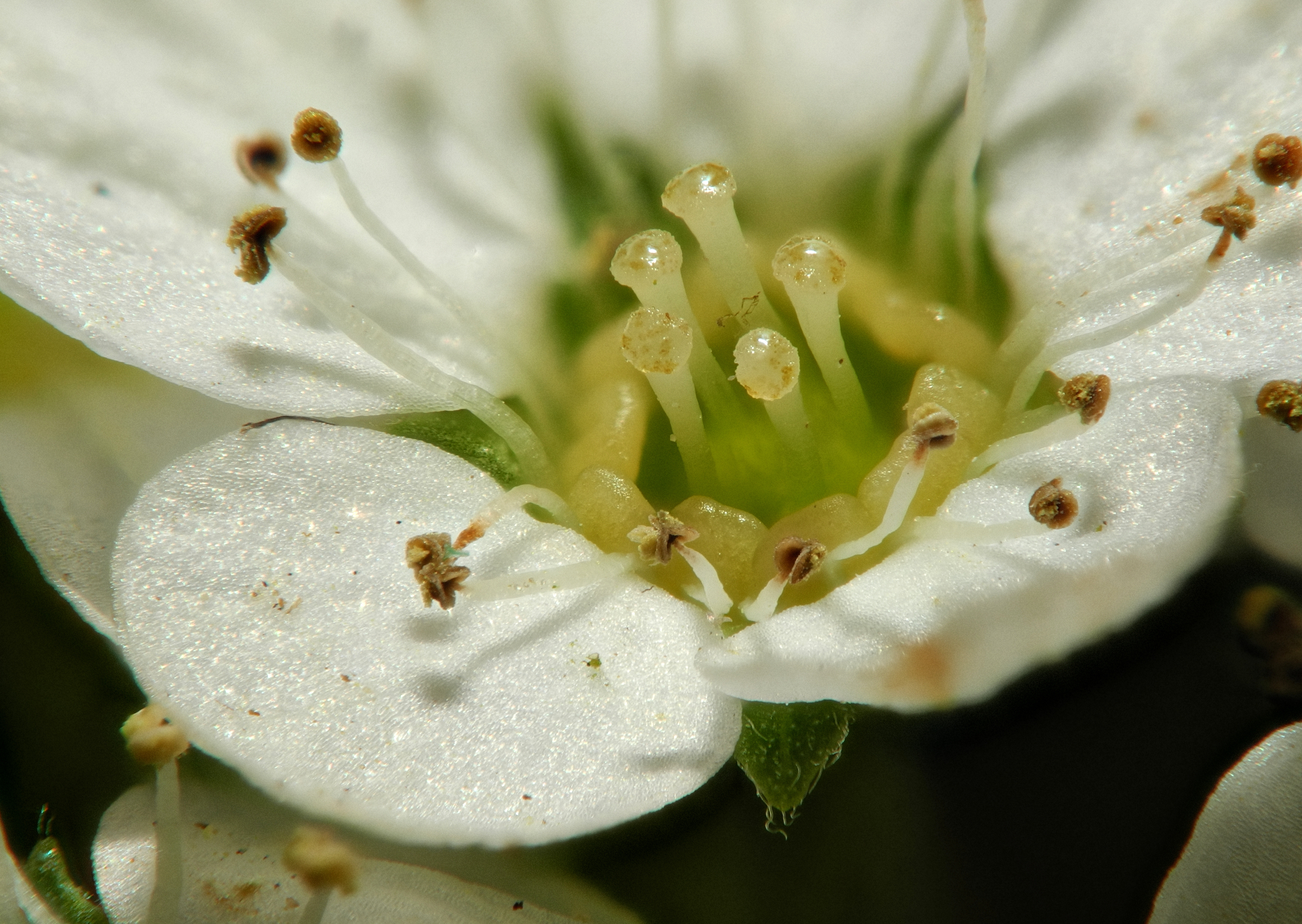 Focus stacking of 58 pictures (using Zerene Stacker).Fleur (focus stacking). Image composée de 58 photos prises avec la bonnette Raynox MSN-505 et assemblées avec Zerene Stacker.